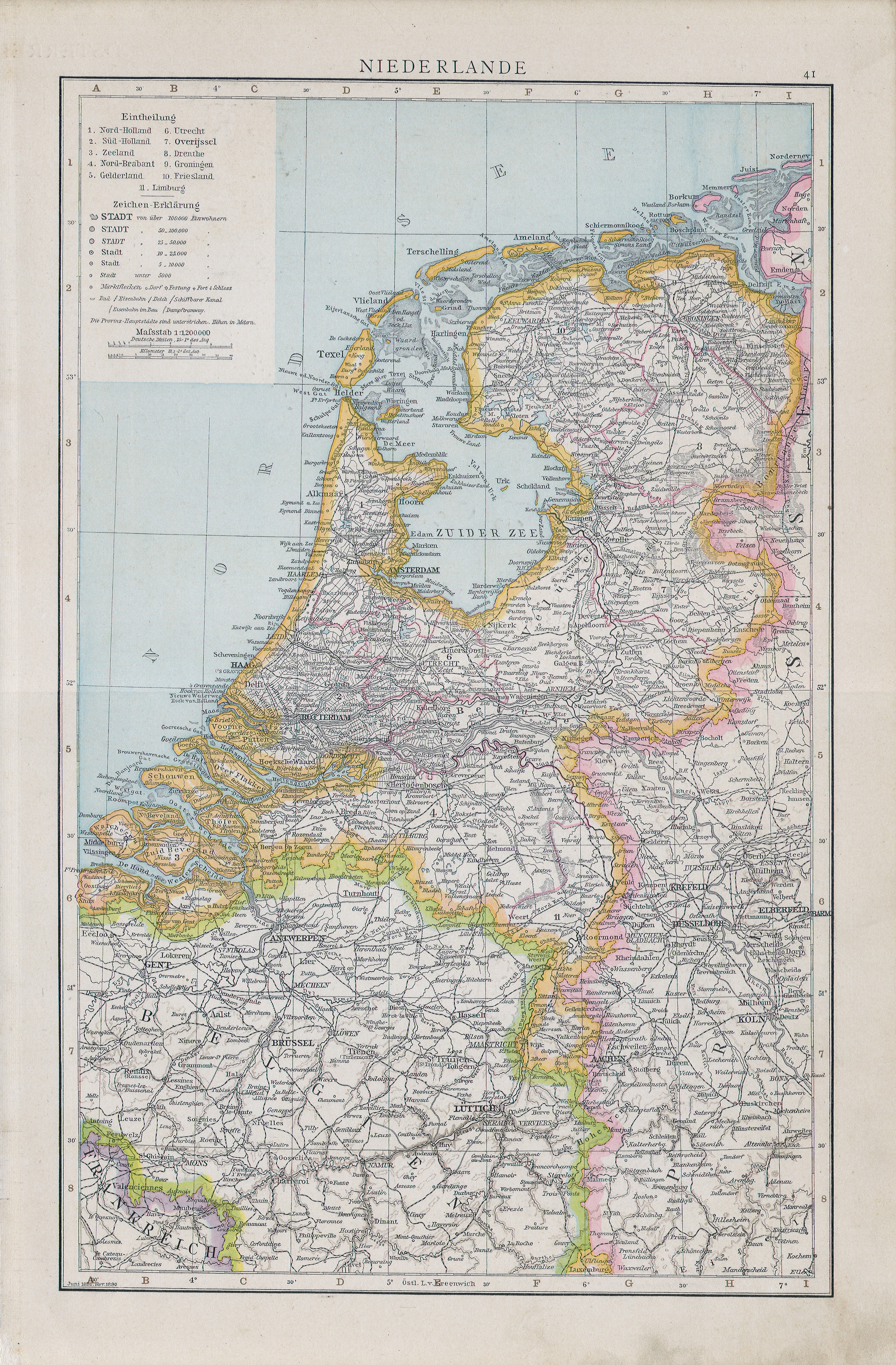 map of Netherlands